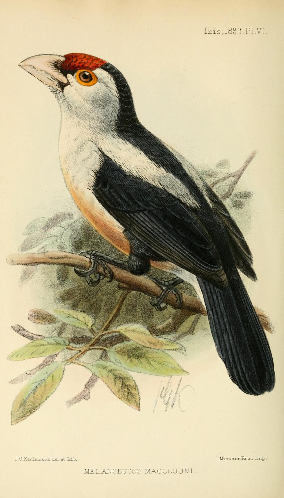 Lybius minor macclounii (syn. Melanobucco macclounii)